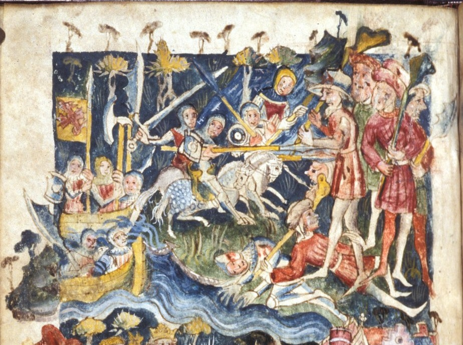 (Detail) Combat between Brutus's troop and the giants of Albion (led by Gogmagog), Top half of Harley 1808 fol. 30 (See description of Harley1808-f030-Brutus.jpg.)